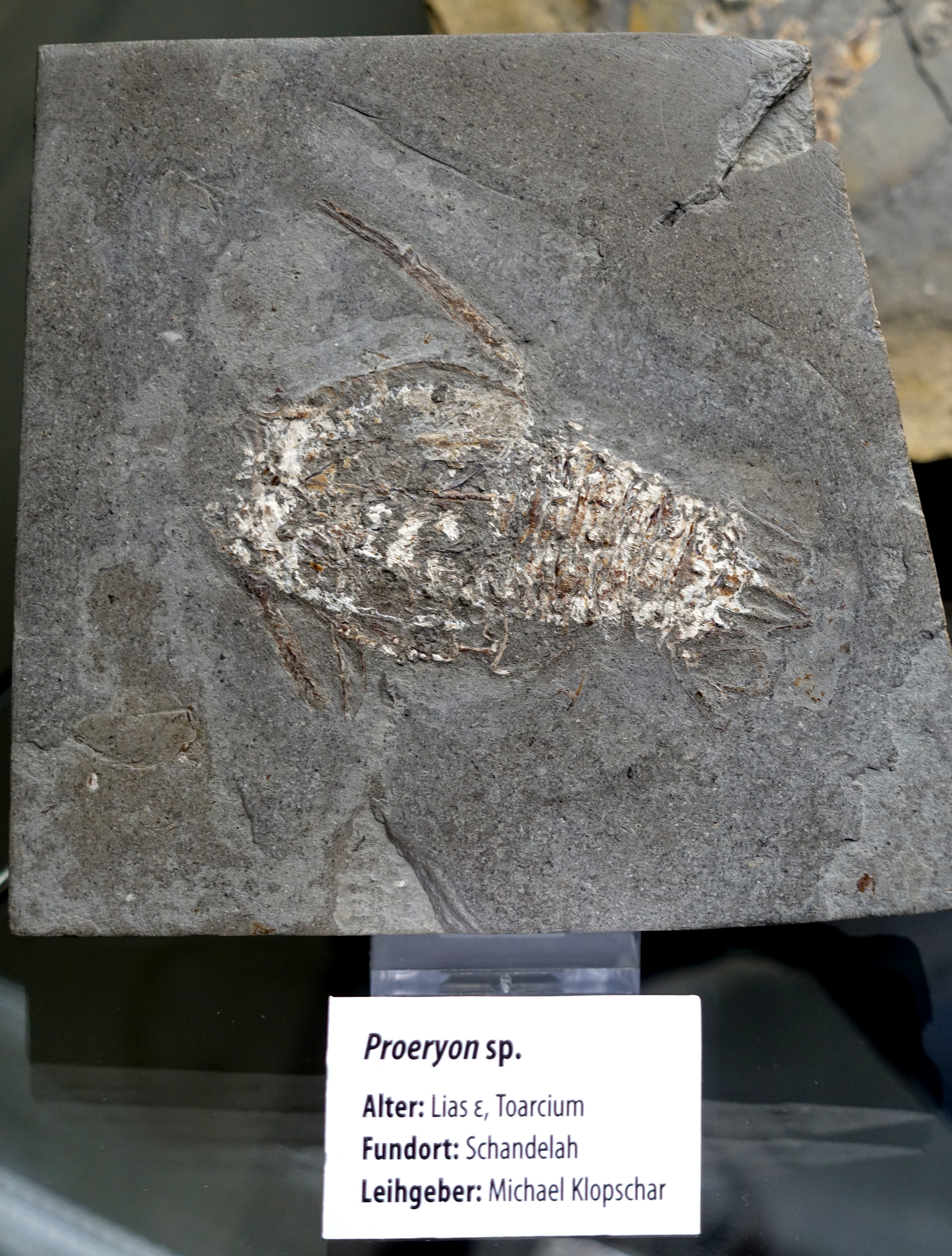 Exhibit in the Naturhistorisches Museum, Braunschweig, Germany.